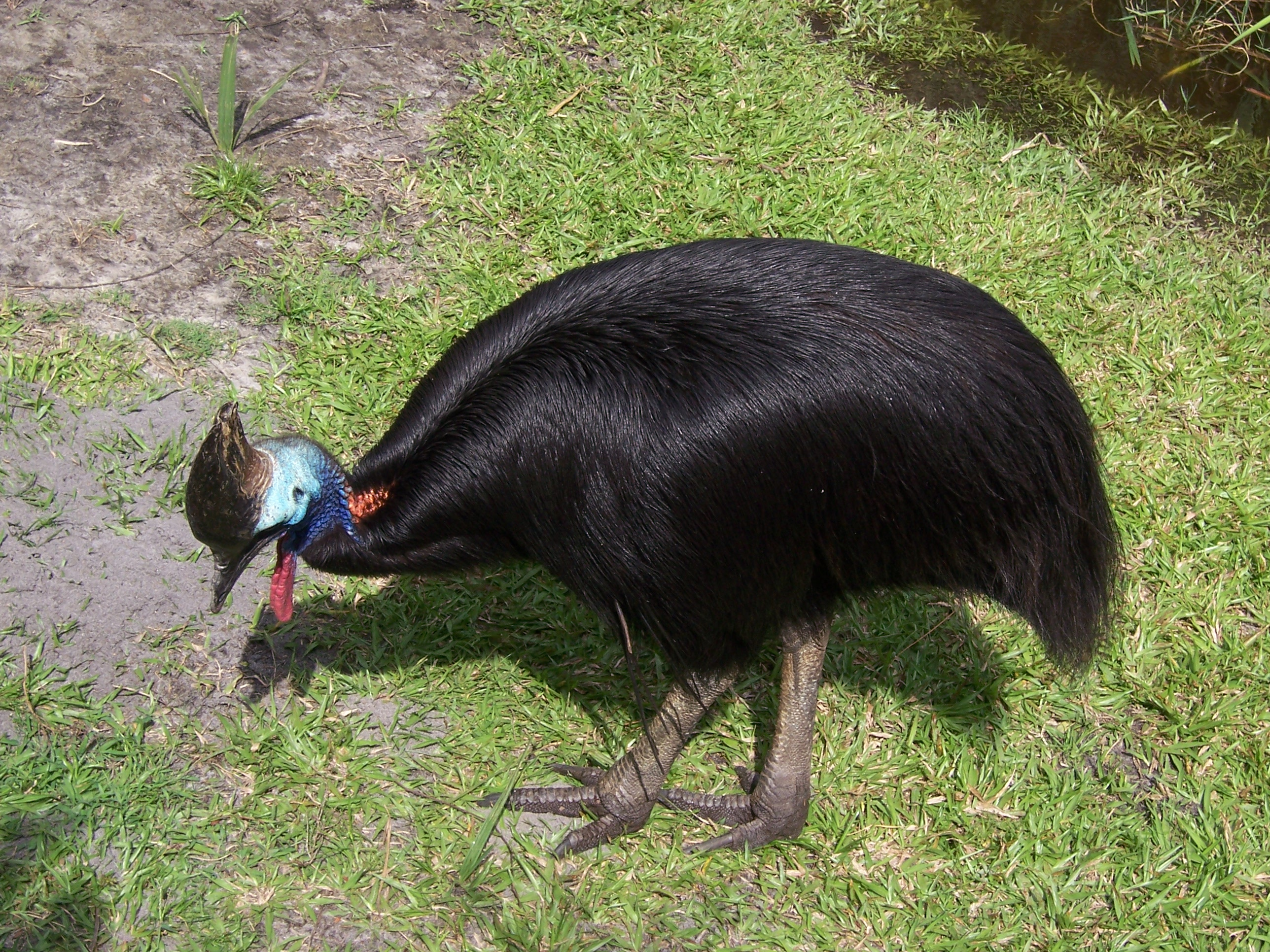 A Southern Cassowary (also known as Double-wattled Cassowary, Australian Cassowary or Two-wattled Cassowary) at Brevard Zoo, Florida, USA.